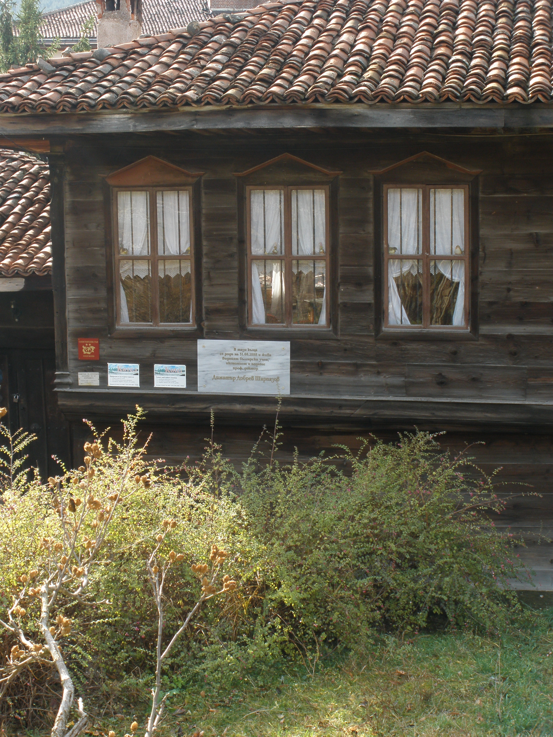 Dimitar Dobrev Sharpazov house in Kotel